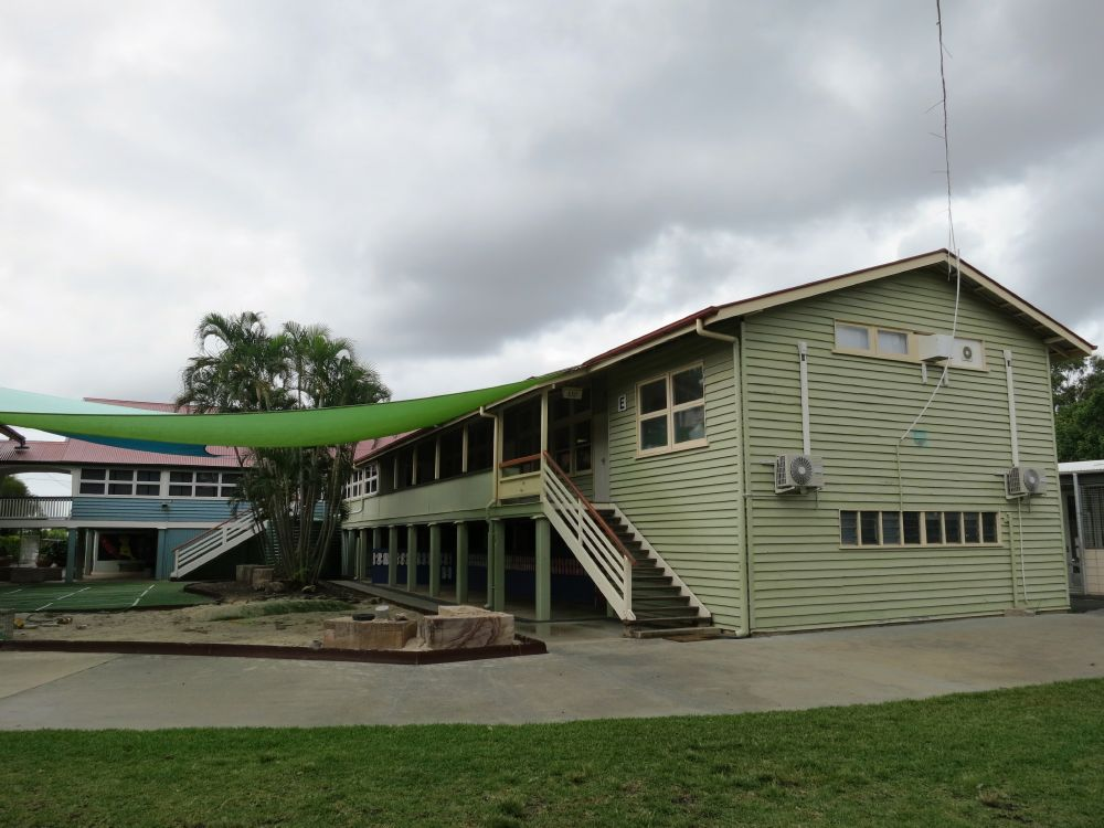 1954 Highset Timber School Building (Block E), Cannon Hill State School